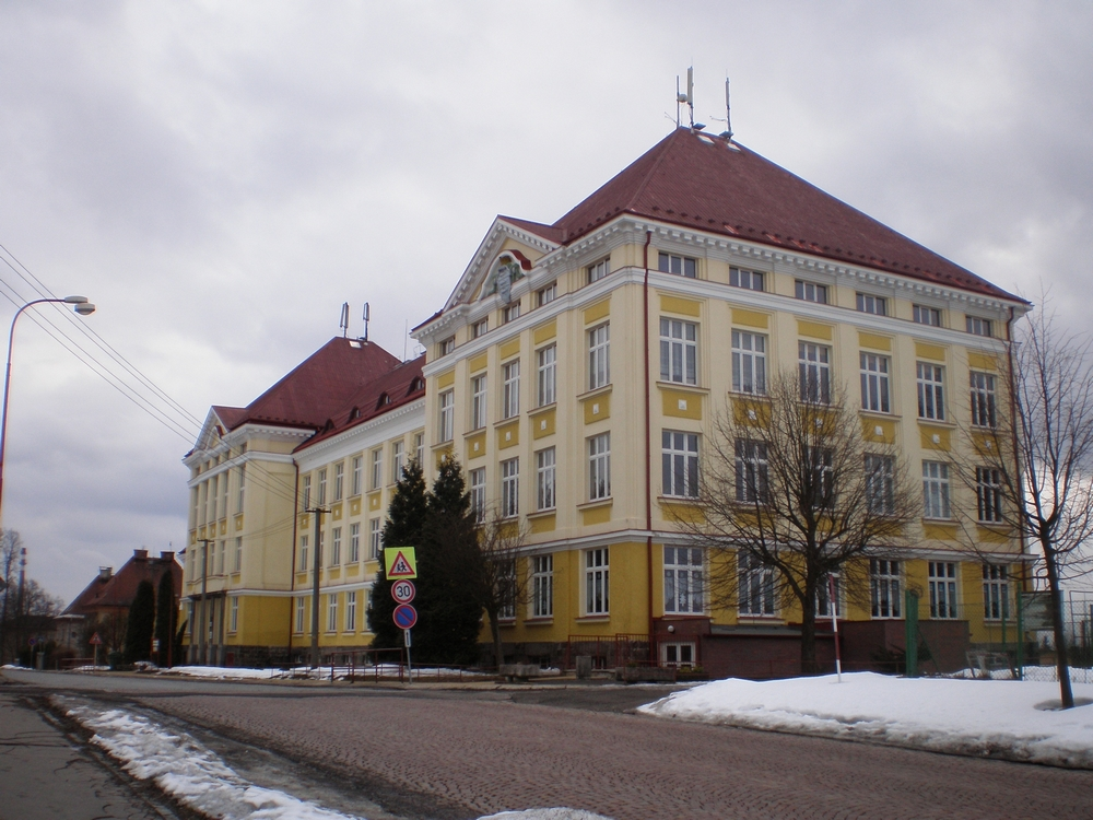 Aš, Czech Republic, 3rd school in Okružní street